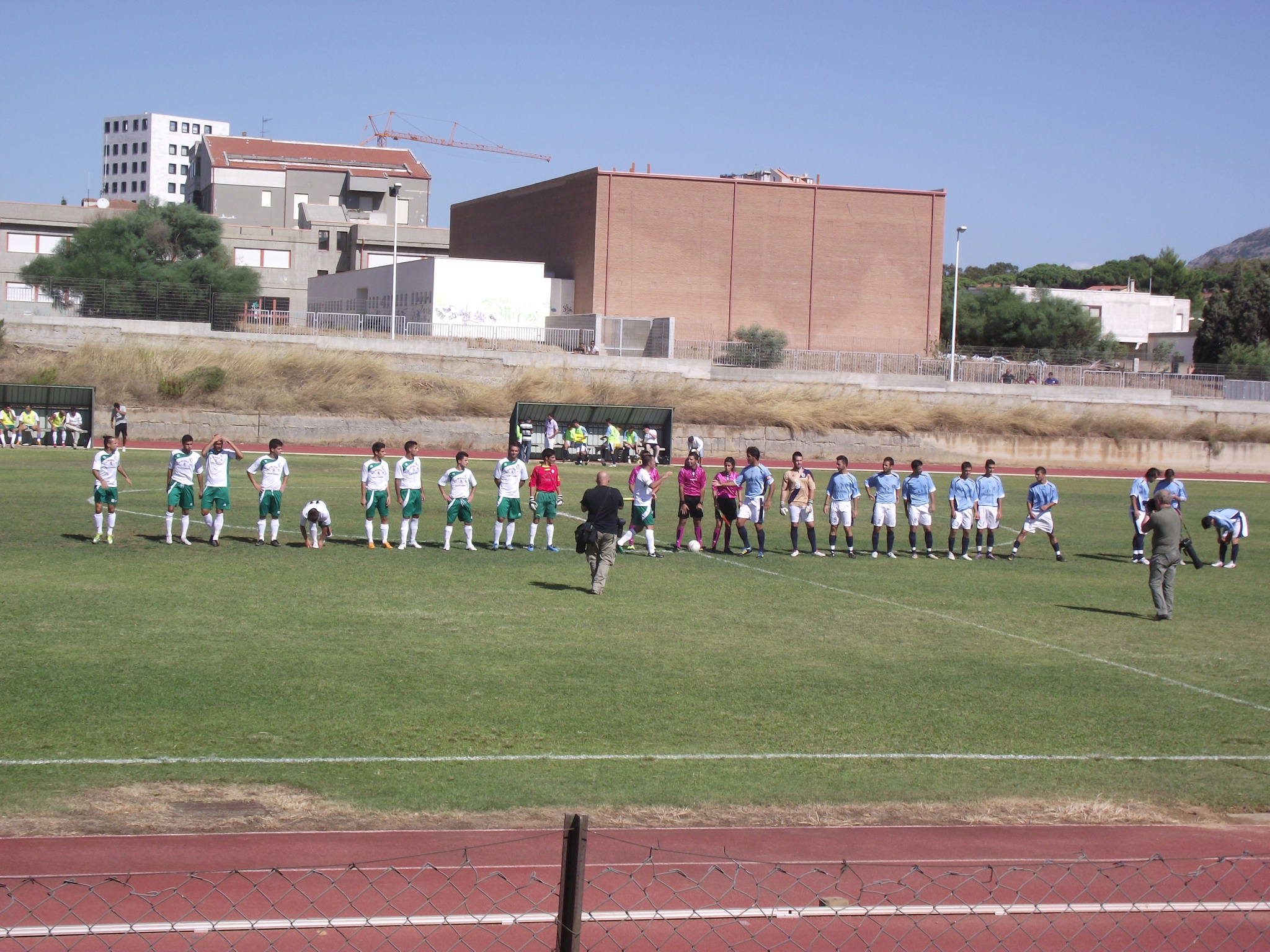 Carbonia and Castiadas football teams ready for the first match of the 2011/12 Sardinian Eccellenza championship. Photo took in the Giuseppe Dettori field in Carbonia, Sardinia, Italy